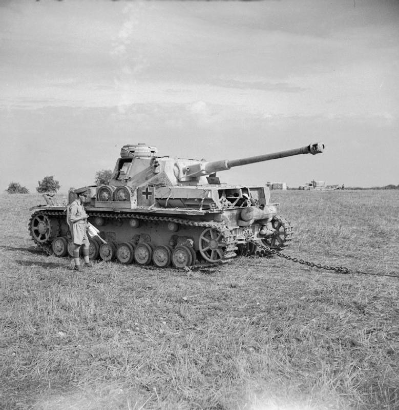 The British Army in Italy 1943 A captured German PzKpfw IV tank which was used for anti-tank weapon tests at Eighth Army HQ near Lucera, 27 October 1943.